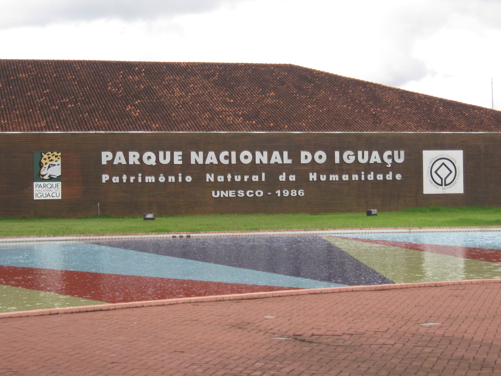 Parque Nacional do Iguacu, Parana State, Brazil.